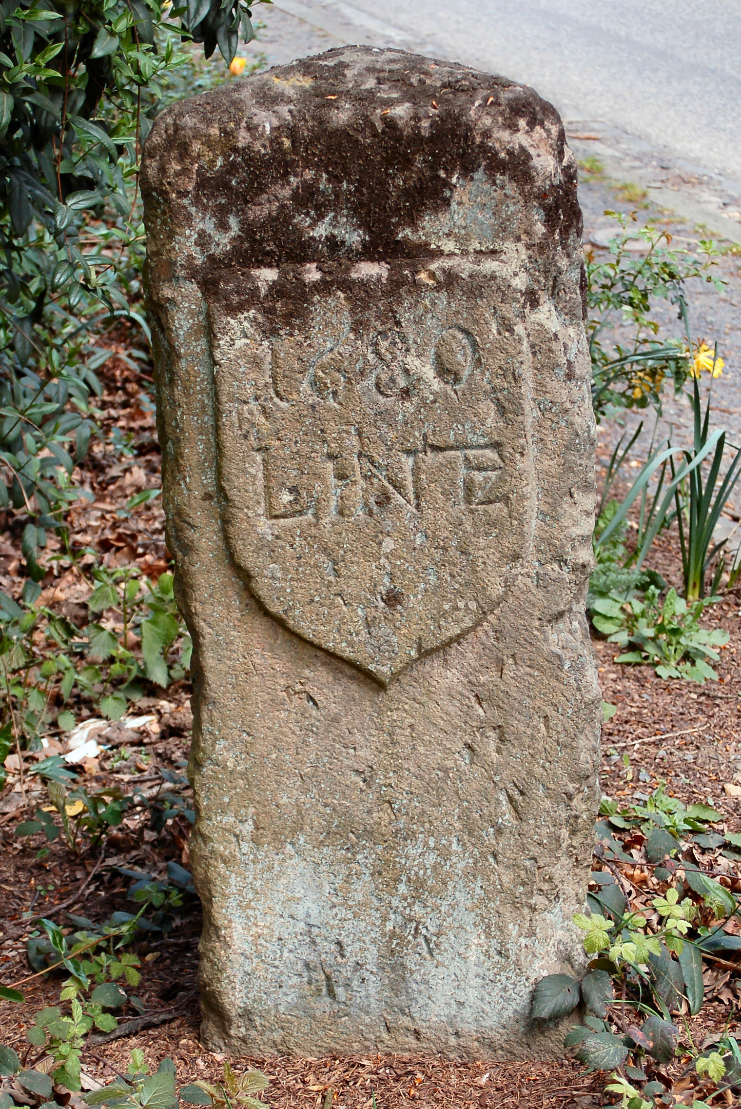 Historical boundary stone from 1680 at the border between the Ämter and parishes (Kirchspiele) Linz, Neustadt and Erpel, today marking the border between the town Linz am Rhein and the municipalities (Ortsgemeinden) Vettelschoß and Erpel.